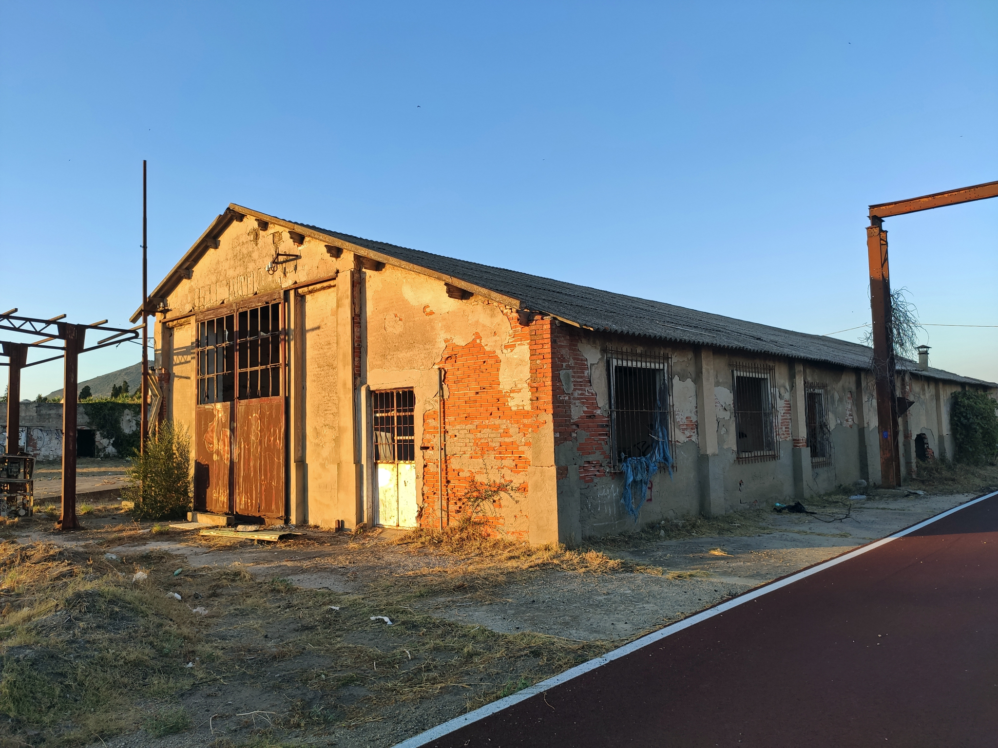 The motive power depot of the former San Giovanni Suergiu railway station in Sardinia, Italy.